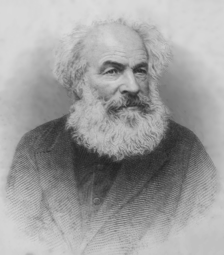 Portrait of George Métivier, Guernsey poet and lexicographer